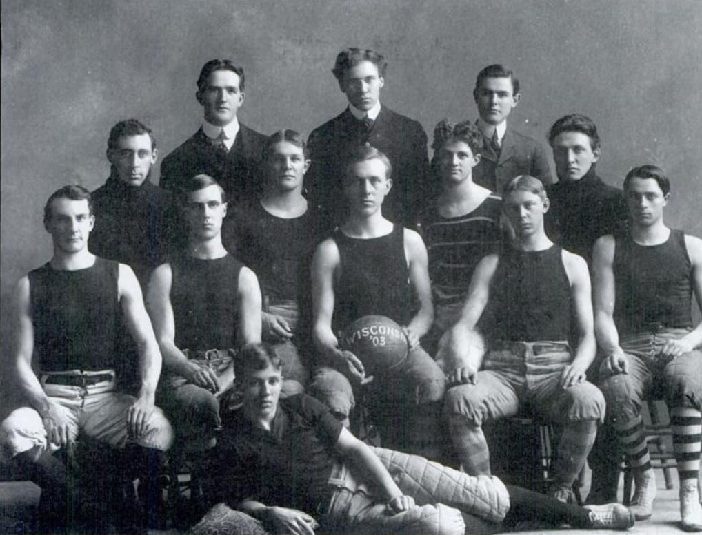 Photograph of 1903 Wisconsin Badgers men's basketball team